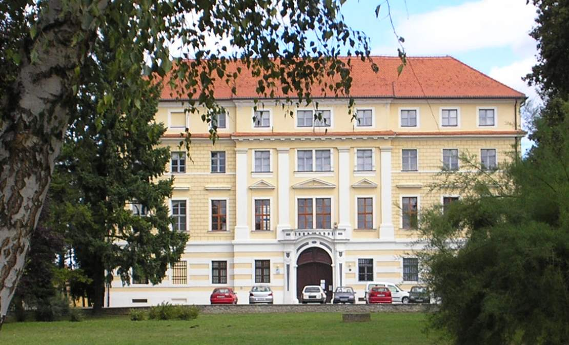 Castle Batthyany, Ludbreg, Croatia